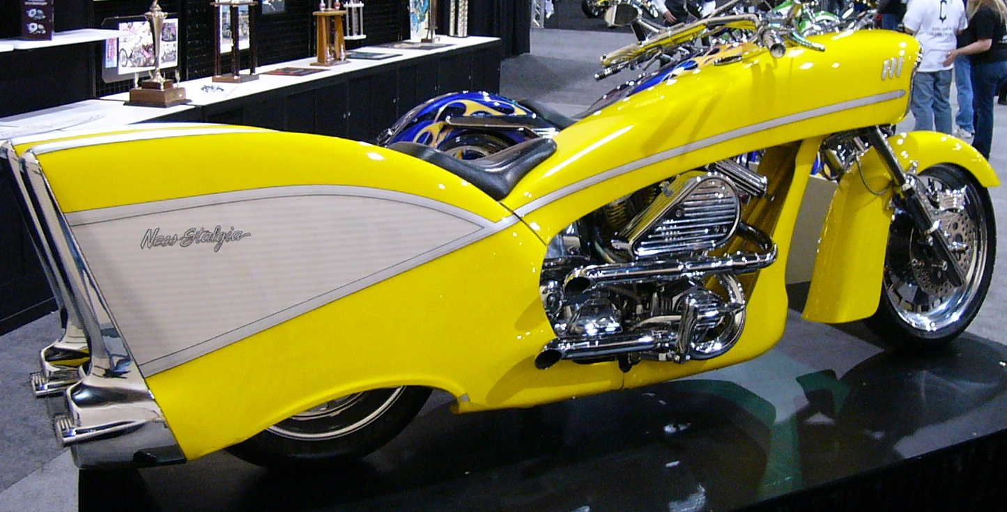 "57 Chevy Bike" designed by Carl Brouhard and built by Arlen Ness with metal fabrication by Ron Covell in 1995. 1995 Harley-Davidson EVO 80 cubic-inch engine.